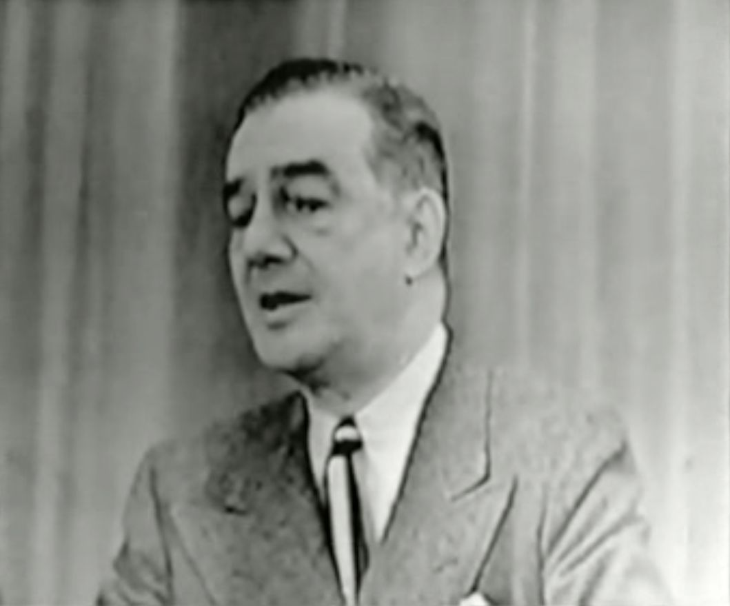 Dr. Richard H. Hoffman appearance on premier broadcast of TV show What's My Line